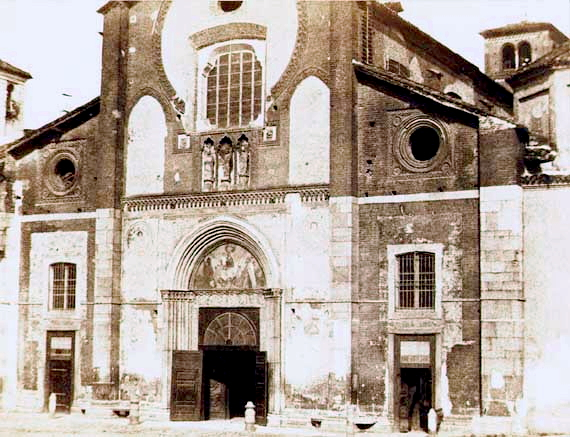 Pompeo Pozzi (1817-1880), The facade of the church of San Marco in Milan, Italy, before the 1871 restoration. 1860s 2007.